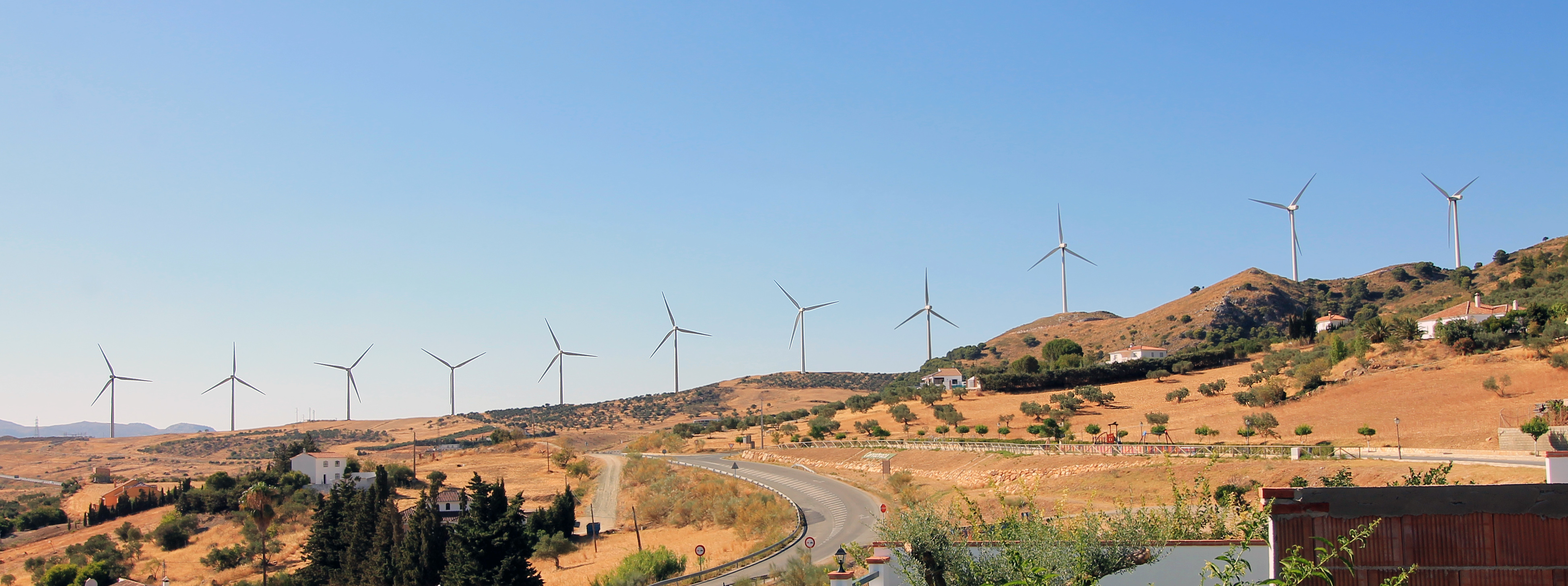 A windfarm at Sierra de Baños (a mountain range) in the Province of Málaga (Andalusia, Spain). Wind turbines Gamesa G87.